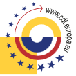 Logo CdT